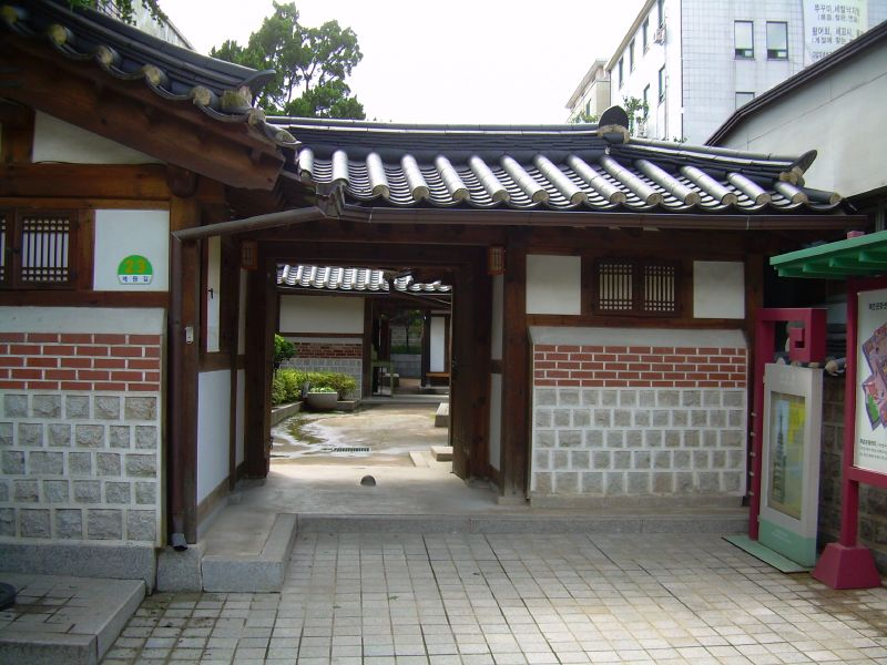 Bukchon Hanok Village in Jongno-gu, Seoul, South Korea